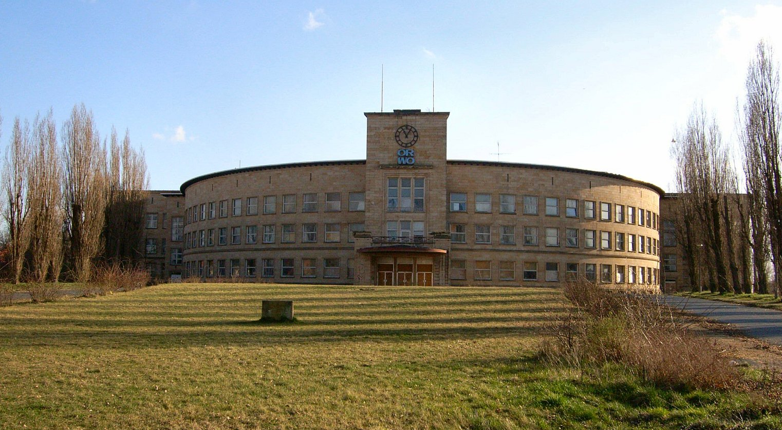 Bitterfeld-Wolfen, ORWO Administration Building, today, the town hall of Bitterfeld-Wolfen.